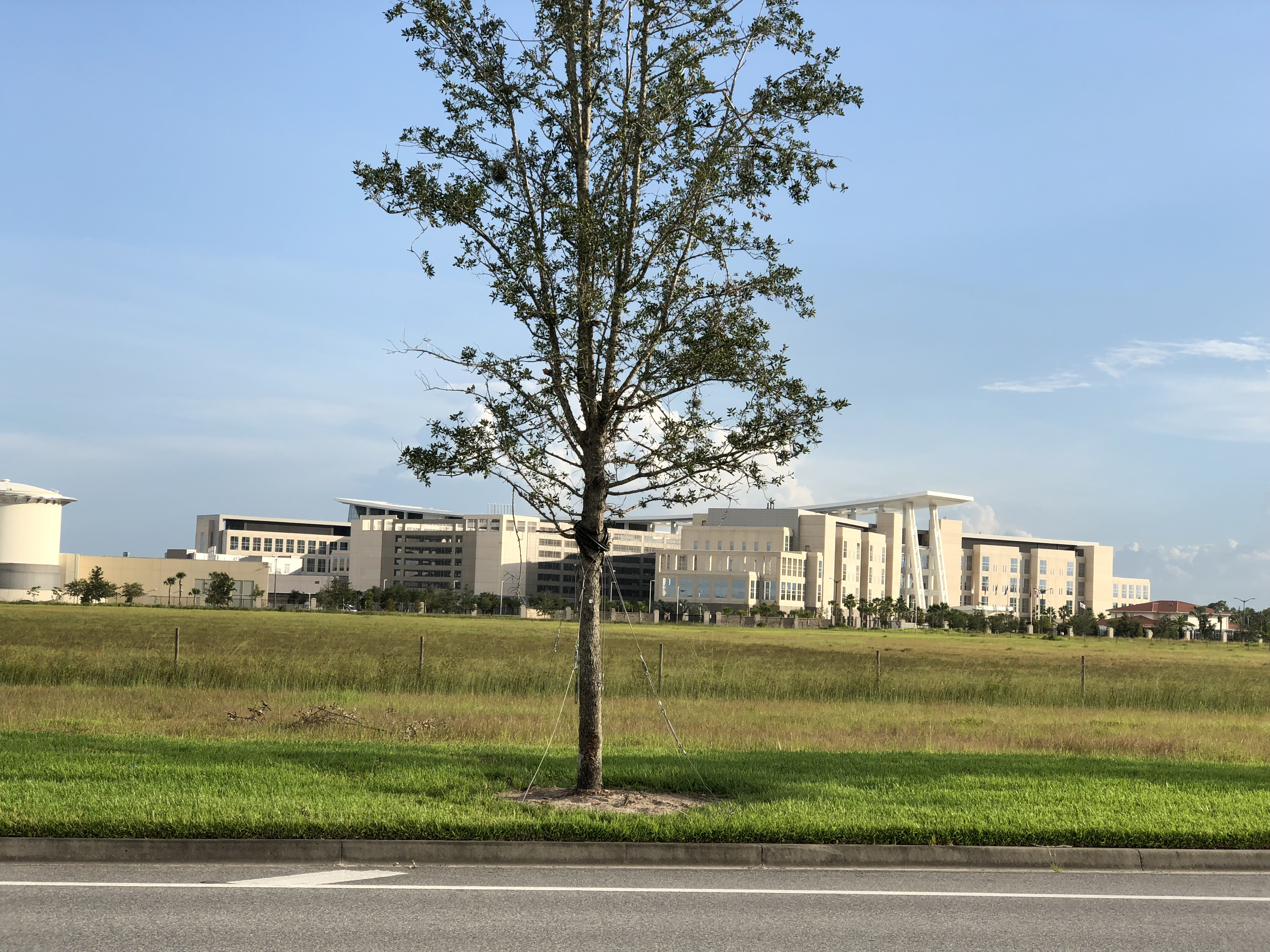 Orlando VA Medical Center as seen from